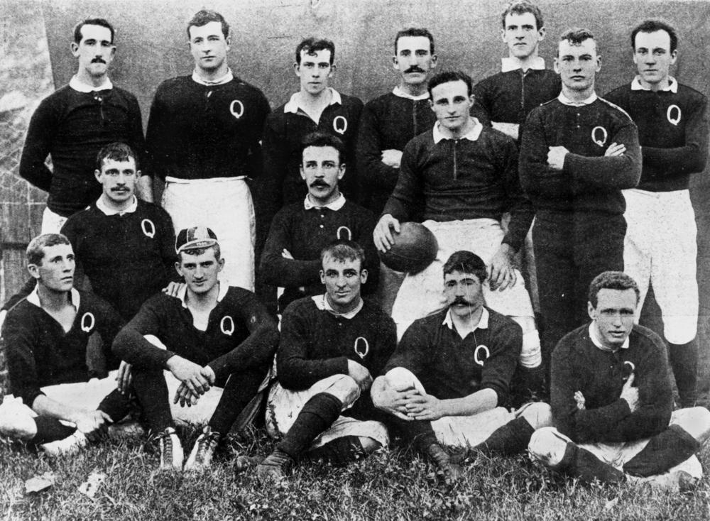 Battle-stained Queensland Rugby Union Team, photographed after the match in July 1899 Front row - F. Kent, S. Boland, W. Tannee, E. Currie, A. Colton. Centre - A. Gralton, C. S. Graham, R. McCowan (Captain), T. Colton. Back row - W. Evans, P. Carew, T. Ward, W. H. Austin, A. Corfe, L. Dixon. (Description supplied with photograph.).